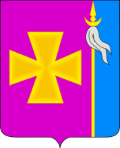 Coat of arms of Nezamayevskaya, Pavlovskaya Raion, Krasnodar Krai, Russia.